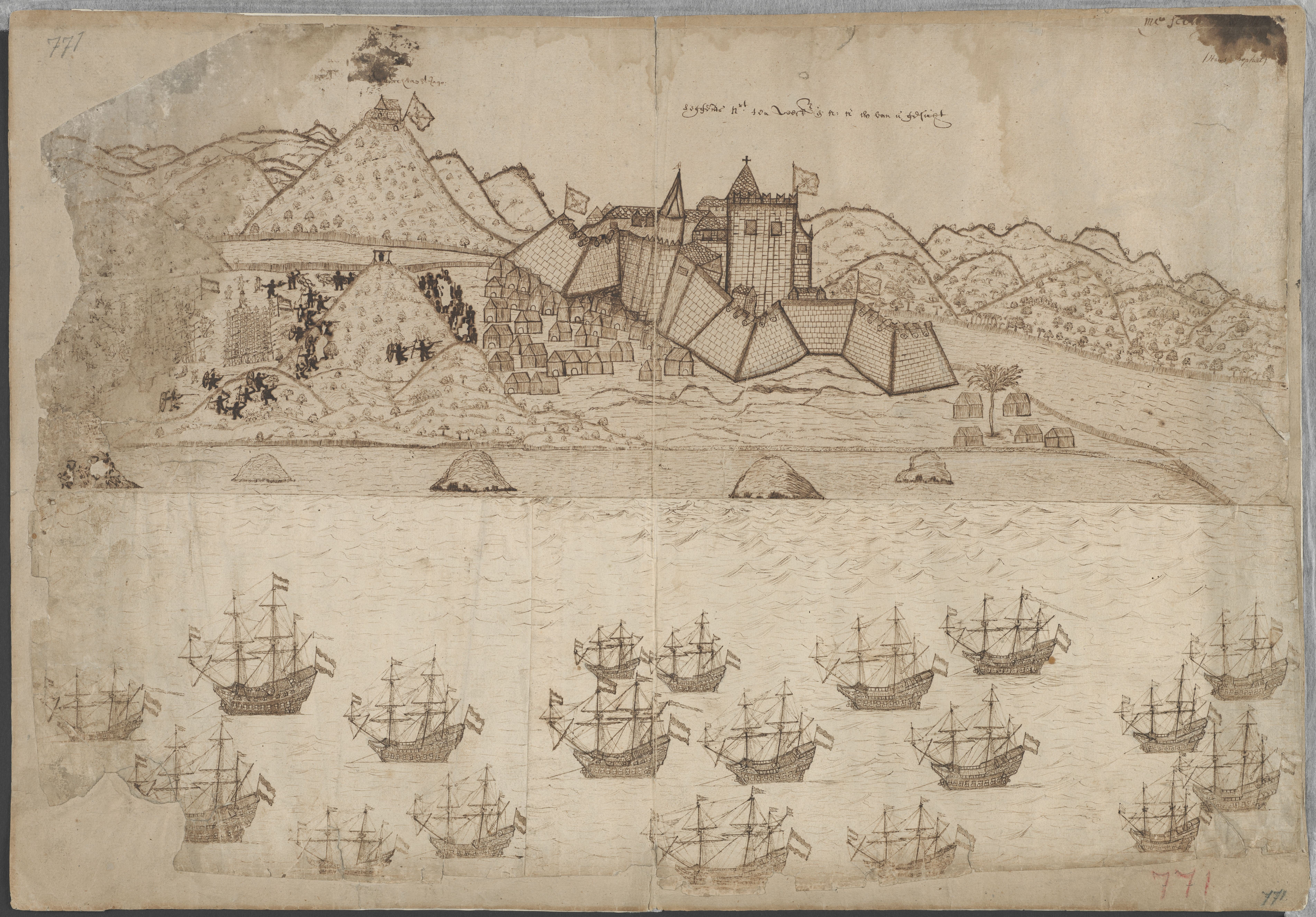 View of the fort and the roadstead at Elmina. Title in the Leupe catalogue (NA): Afbeelding van het Kasteel d'Elmina en het fort St. Jago, benevens de gelande troepen en eene Vloot op de reede. [?] van n' gesigt. On the shore Dutch troops who have landed are shown battling with Ghanaians. The fort is still in Portuguese hands. This may be a depiction of the expedition headed by Jan Dirckszoon Lam in 1625. In 1637 the fort was to fall into Dutch hands. Strips of Japanese paper have been pasted along the edges of the picture. Notes on reverse: Afbeelding van het Kasteel d'Elmina en het fort St. Jago, benevens de gelande troepen en eene vloot op de reede [in pencil] / Hans Propheet, 1629 [in pencil] / 468 [stamped in bold on a small label]. Notes in the Leupe catalogue (NA): De vloot op de reede leggende, bestaat uit 19 schepen. Top right: Mc: sc[?] / Hans Propheet. Top left and bottom right, twice: 771 [in pencil].